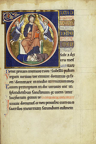 Page from a French Psalter, John Paul Getty Museum, Los Angeles, Ms 66